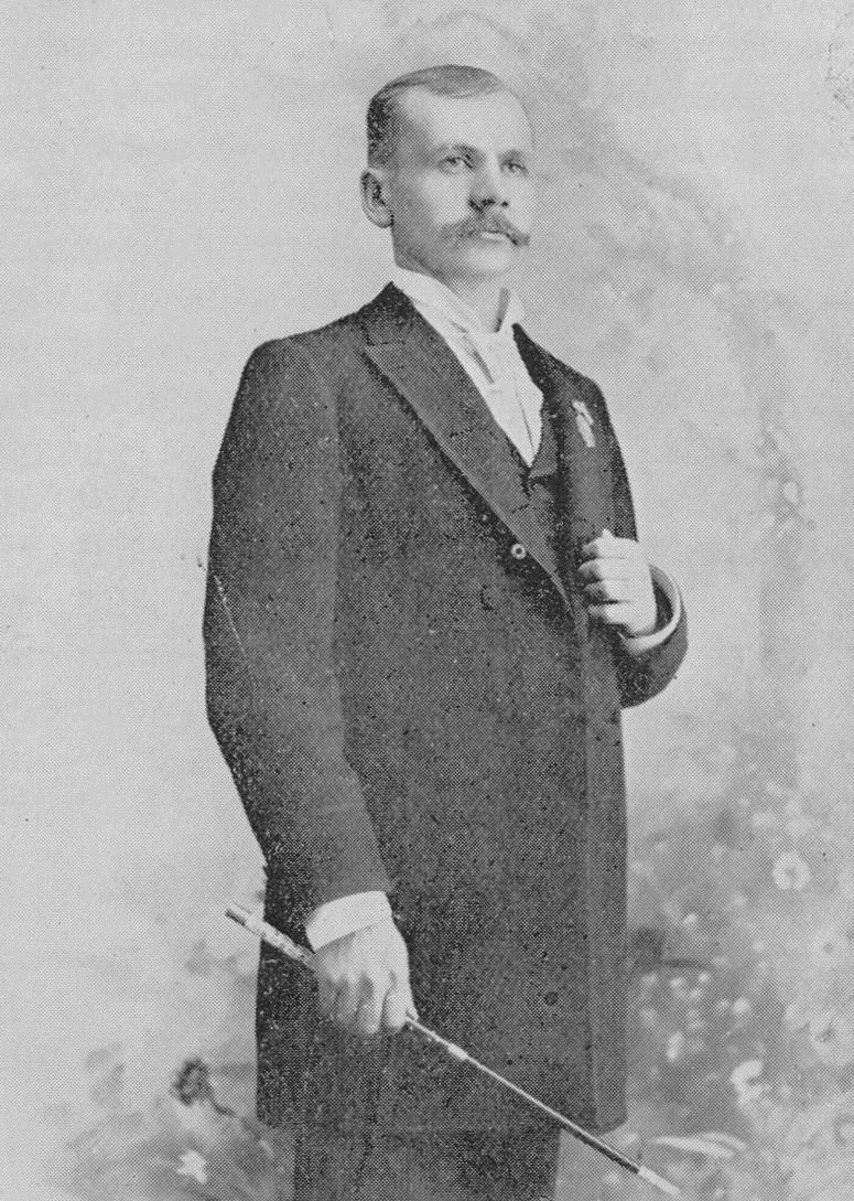 The Finnish American singer and conductor Sanfrid Mustonen